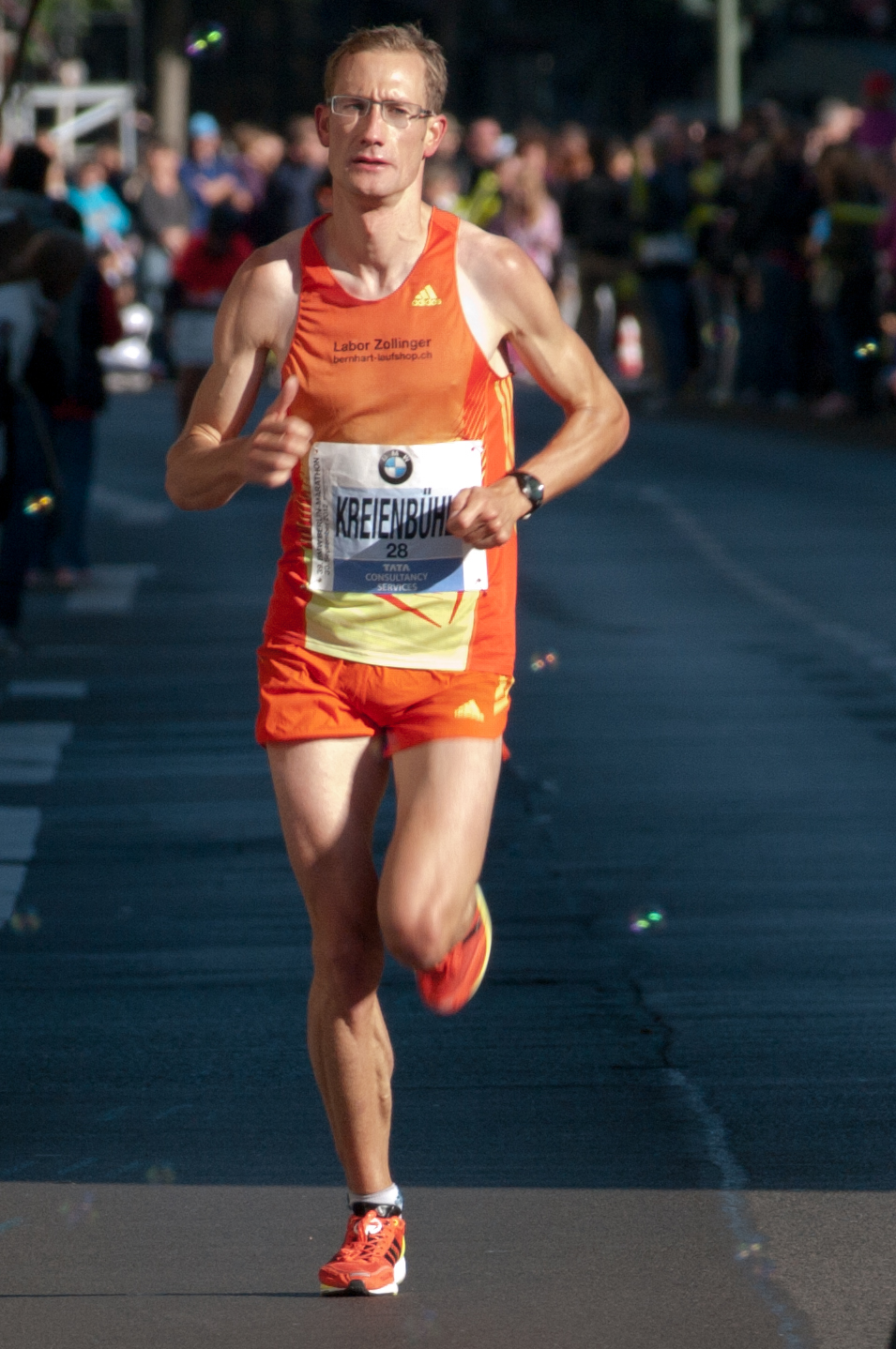 Swiss runner Christian Kreienbühl at the Berlin Marathon 2012 passing Kleistpark between Kilometers 21 and 22.